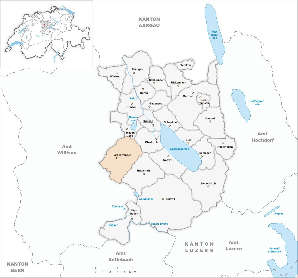 Municipality Grosswangen